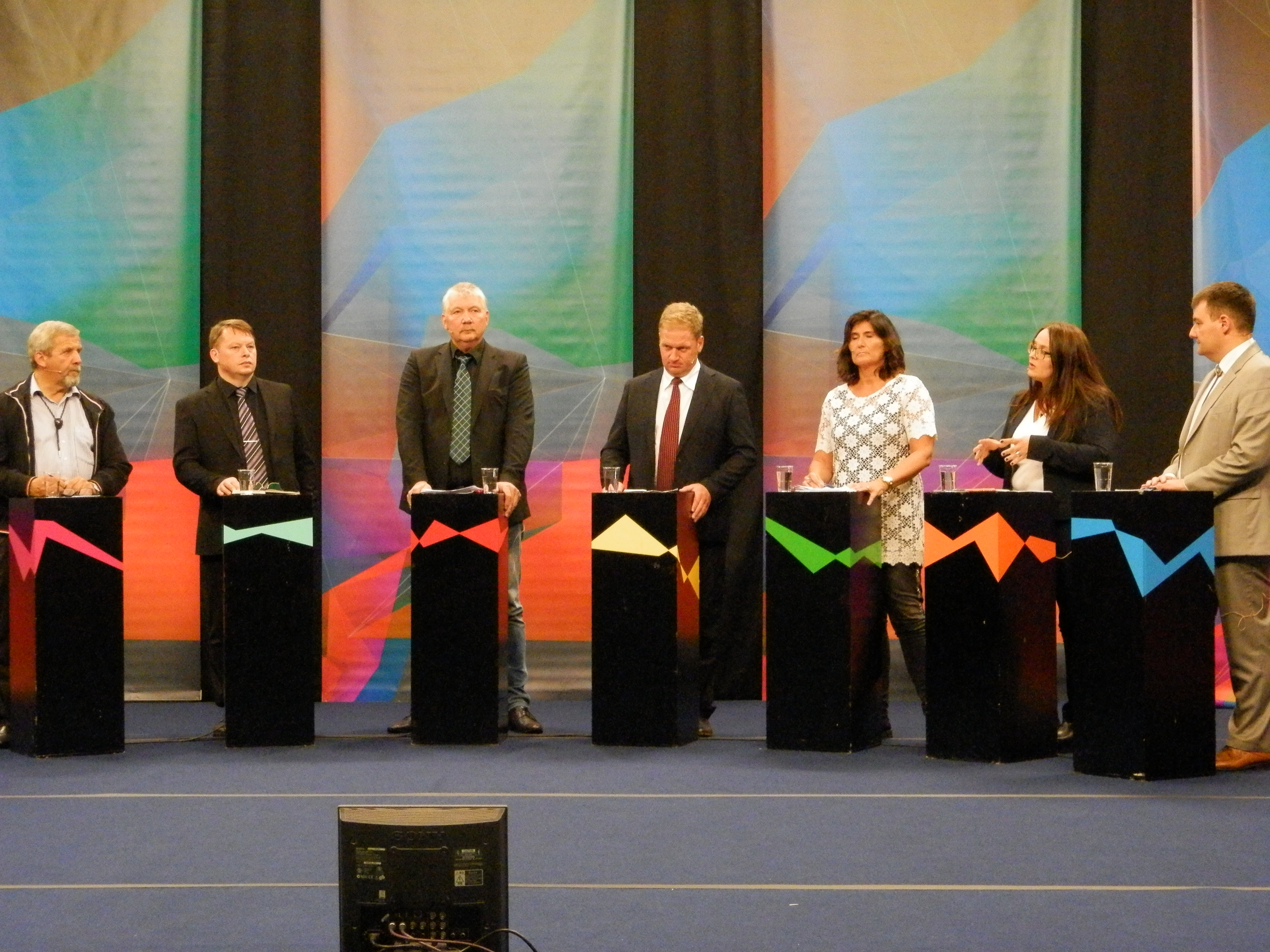 Faroese politicians one week before the parliamentary elections 2015. From left to right: Kári P. Højgaard (D), Jákup Suni Lauritsen (H), Kristin Michelsen (C), Páll á Reynatúgvu (E), Elsebeth Mercedis Gunnleygsdóttur (A), Hanna Jensen (F) and Magni Laksáfoss (B).